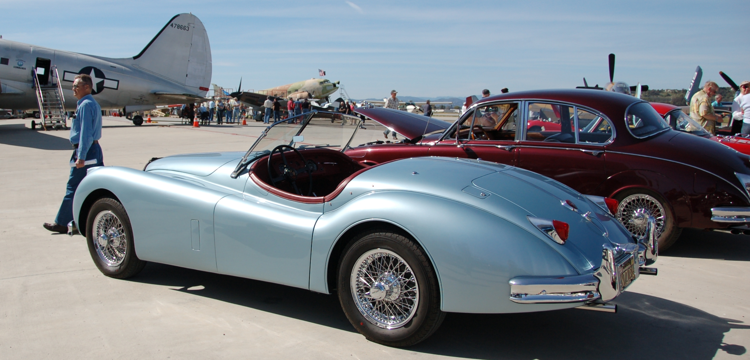 cropped version of my XK140 picture